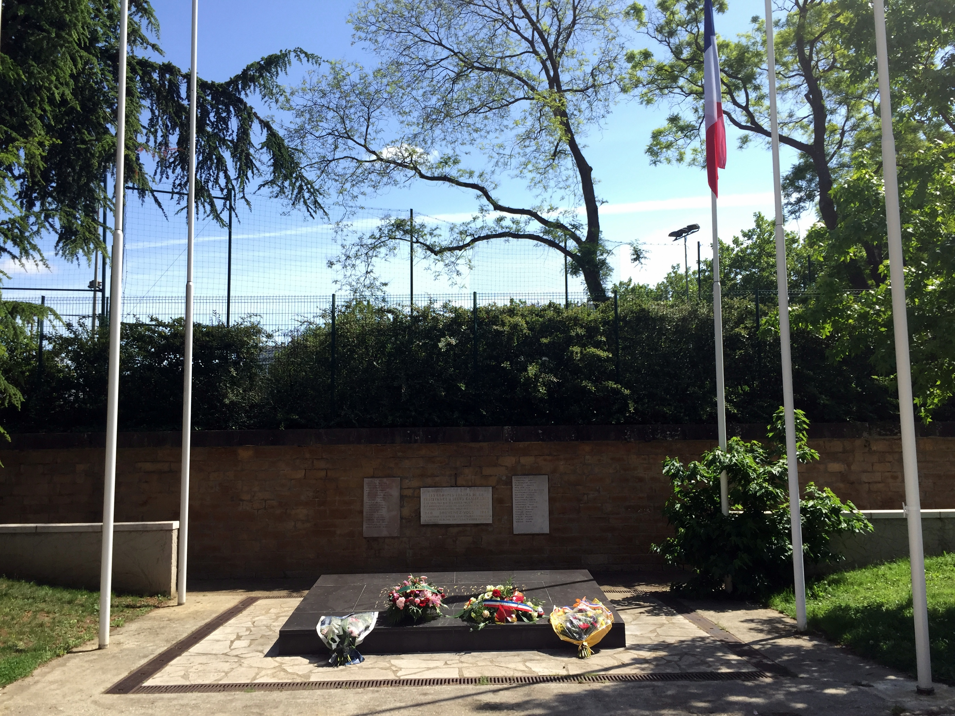 This photograph was taken with an iPhone 6